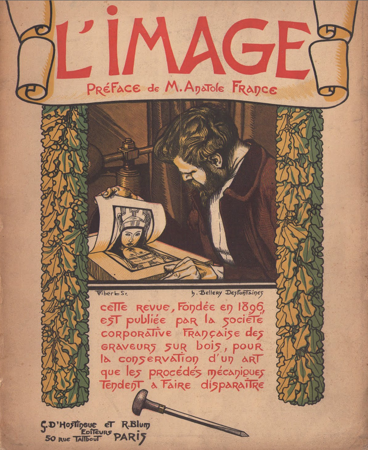 Lithographic front cover of L'Image, specimen published in 1904, designed by Henri Bellery-Desfontaines, engraved by Pierre-Eugène Vibert, printed in Paris for René Blum.